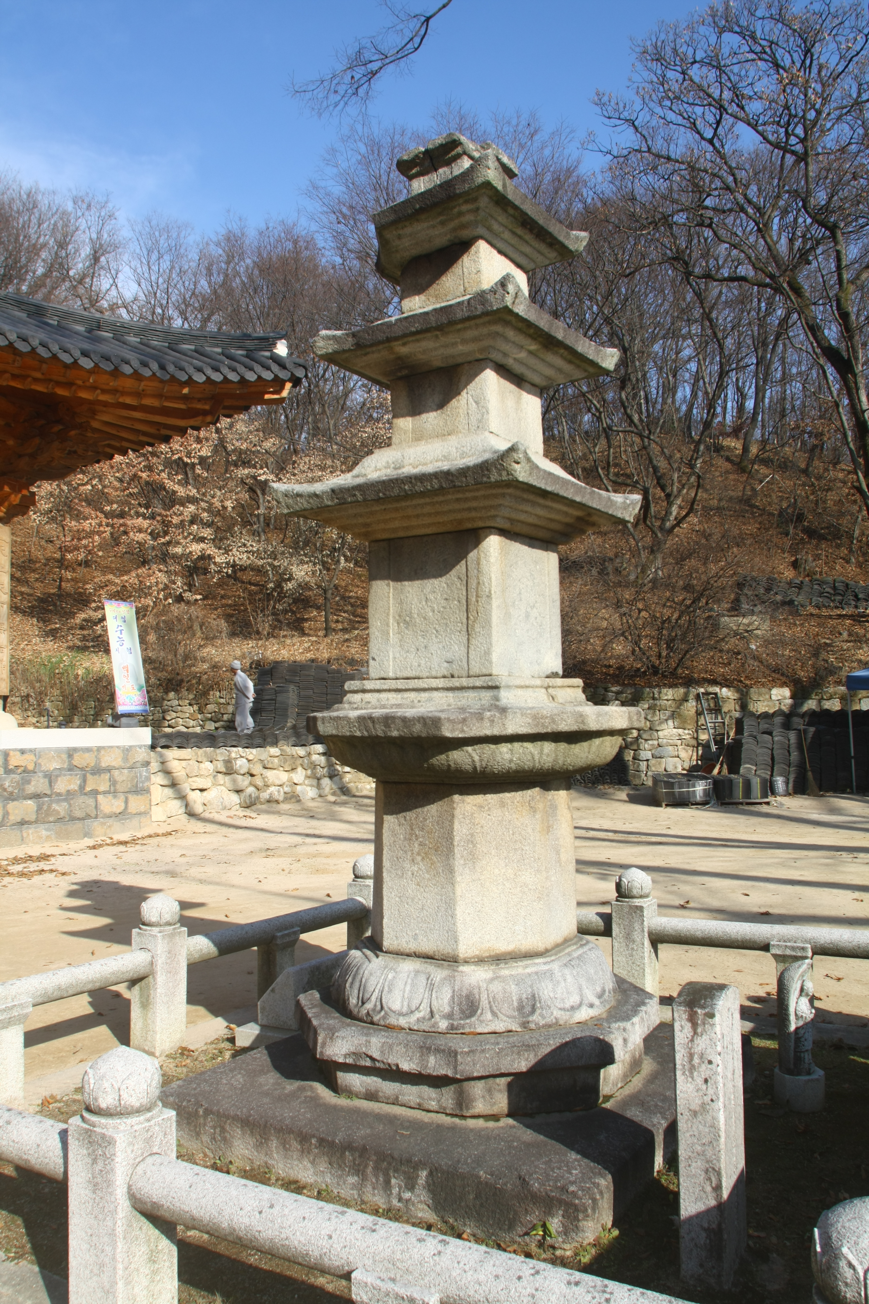 Three-story Stone Pagoda at Dopiansa Temple in Cheorwon, South Korea